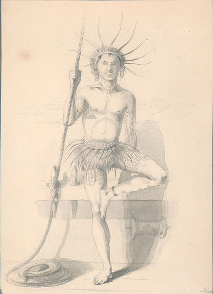 Costume, Ellice's GroupLëtzebuergesch: Eng Zeechnung vun engem tuvaluanesche Mann an engem traditionnelle Kostüm (1841)